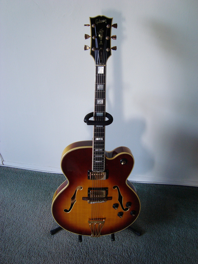 Gibson Byrdland guitar. “ 1969 Gibson Byrdland, in Cherry Sunburst. Gold plated hardware, solid carved spruce top, maple back, sides and neck, ebony fretboard with mother of pearl inlays, humbuckers ” source: image author